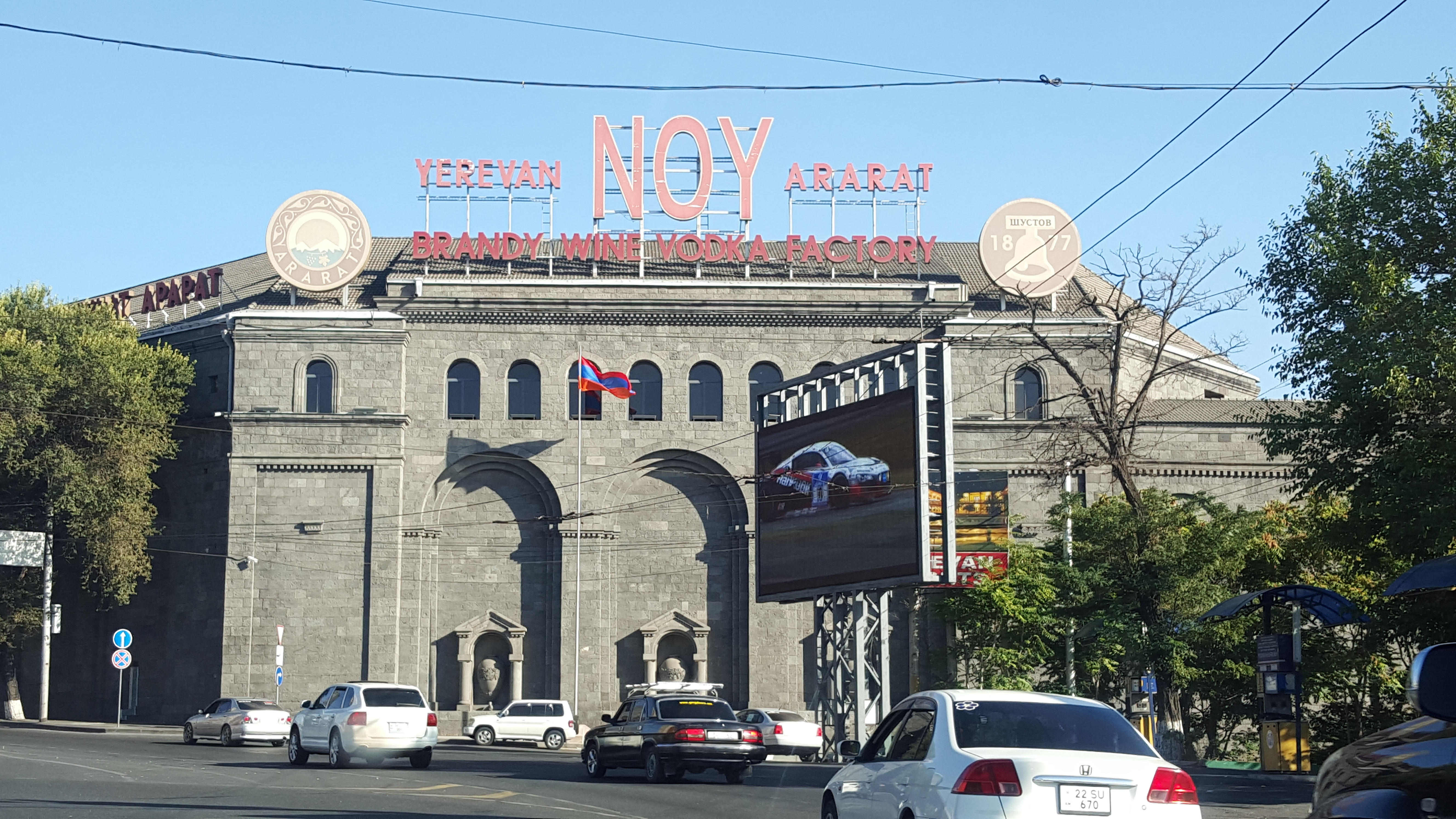 Yerevan Noy Ararat Brandy Wine Vodka Factory